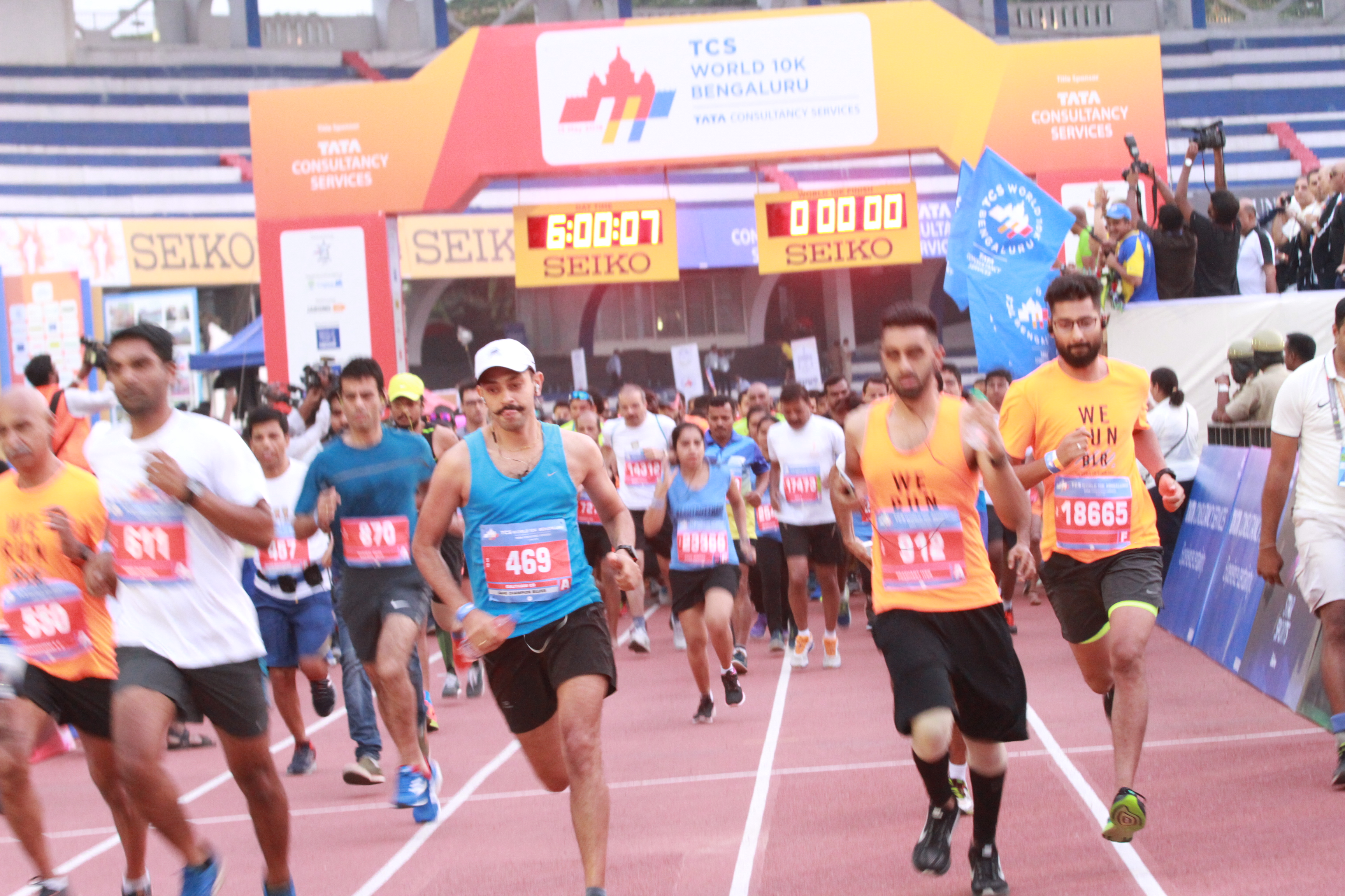 Start of Open 10K at TCS World 10K Bengaluru 2016